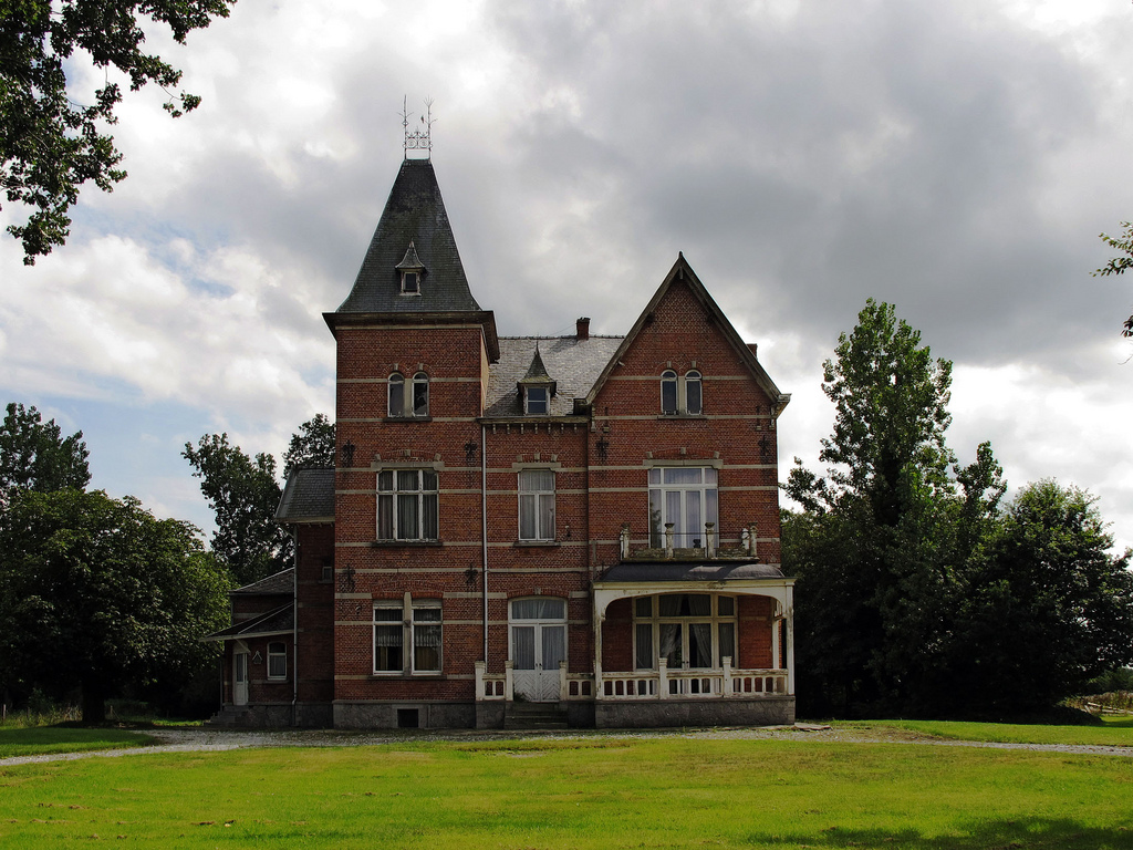 Kasteel Ter Eiken